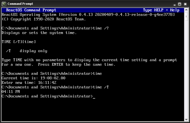 time command on ReactOS-0.4.13